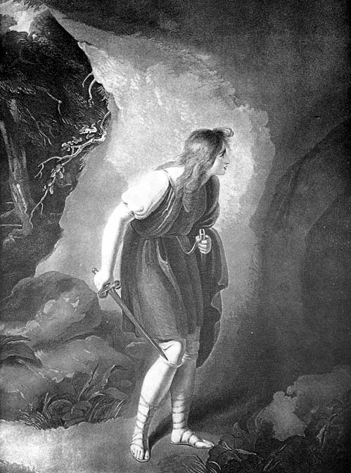 Cymbeline: Act III, Scene 6: Imogen, disguised, enters into Bellario's cave